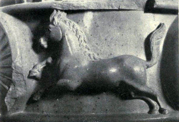 Sarnath Ashoka Capital Horse motif, Rapson Cambridge History of India. Coin of Euthydemos I, from Ai Khanoum.